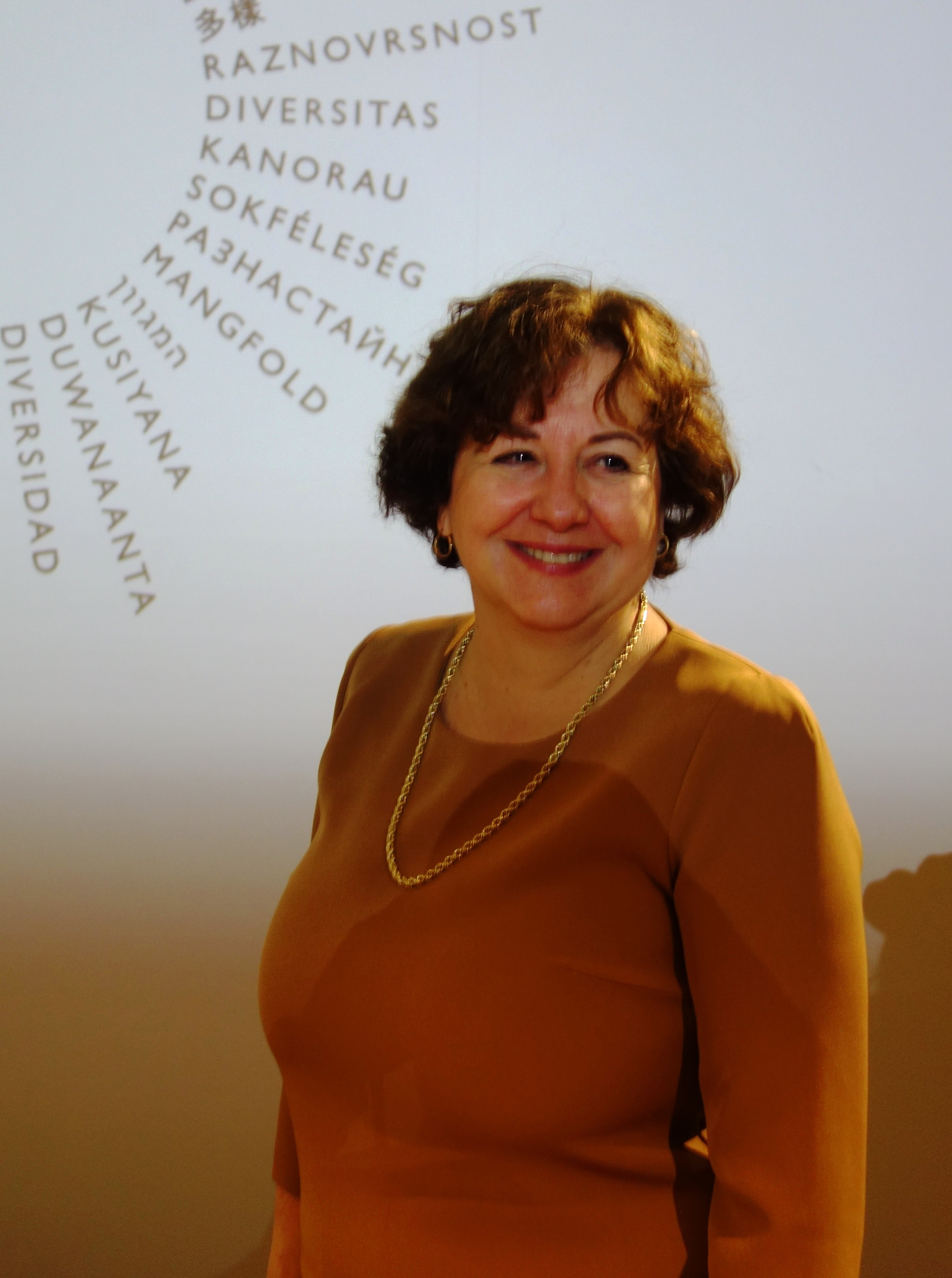 Michèle Lamont, Rijksmuseum Amsterdam (24 Nov. 2017)